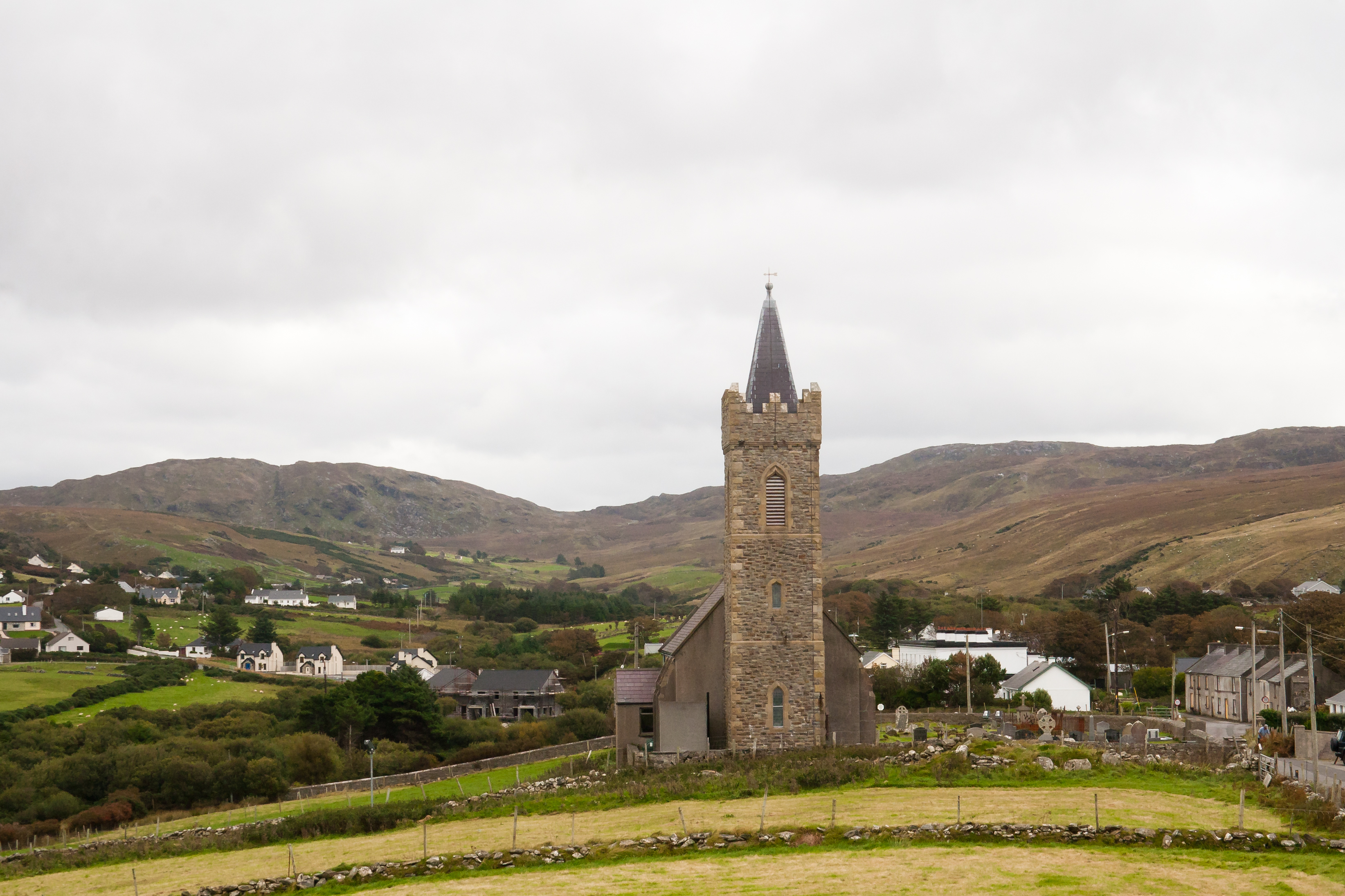 View of the Anglican St. Columba's Church from the second pilgrim station of Turas Cholmcille.